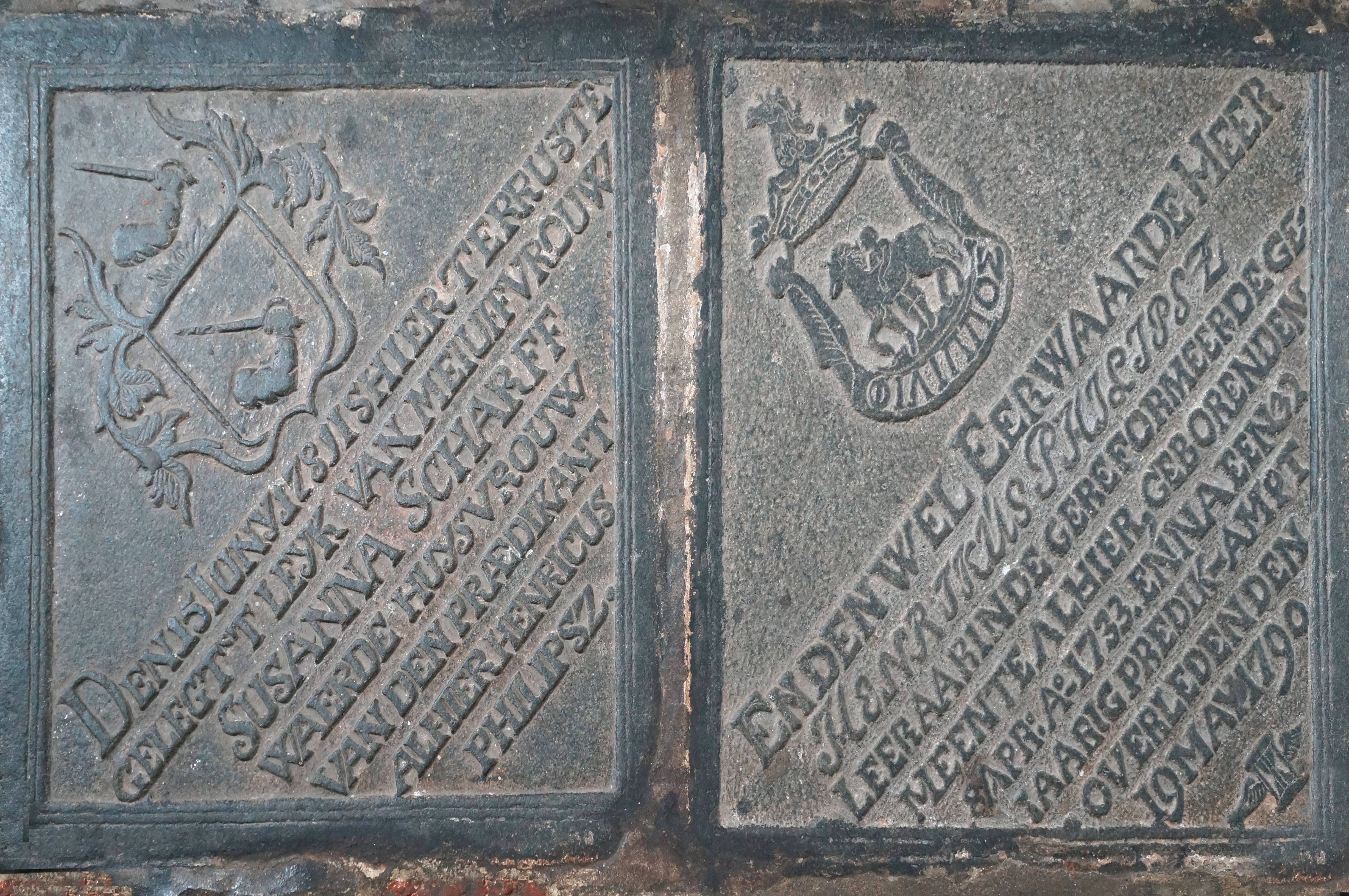 Henricus Philipsz and his wife Susanna Scharff 's tombstones in the Protestant church Wolfendhal Colombo Left: "Den 15 Iuny 1781 is hier ter ruste gelegt 't leyk van Meiuffvrouw SUSANNA SCHARFF waerde huysvrouw van den prædikant alhier Henricus Philipsz." (On June 15th, 1781 here was placed to rest the body of Ms. Susanna Scharff, valued house wife of the preacher here, Henricus Philipszoon) Right: "En den wel Eerwaarde Heer HENRIKUS (sic) PHILIPSZ leeraar inde gereformeerde gemeente alhier, geboren den 8 Apr Anno 1733, en na een 32 jaarig predik-ampt overleden den 19 May 1790" (And the most honored Mr. Henrikus (sic) Philipszoon, teacher in the reformed church here, born April 8th 1733, and died after 32 years as a preacher on May 19th, 1790)